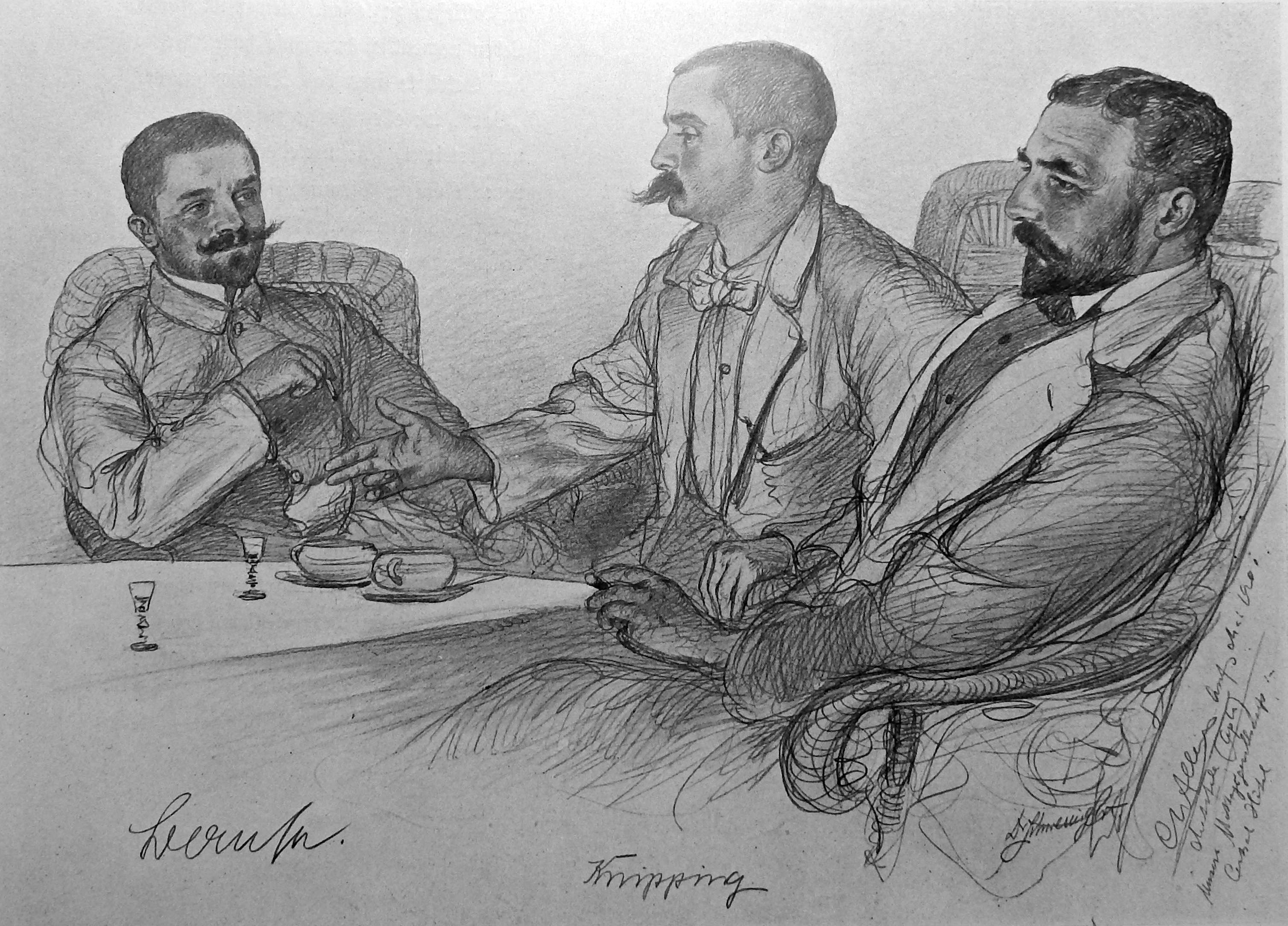 German diplomatic People in Apia, Samoa, in May, 1900. From left to right: Mr. Banse, Mr. Hubert Knipping, Mr. Schwesinger.